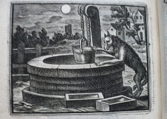 Illustration of The Fox and the Wolf.